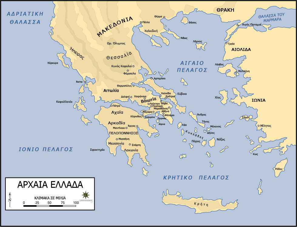 Map of classical Greece